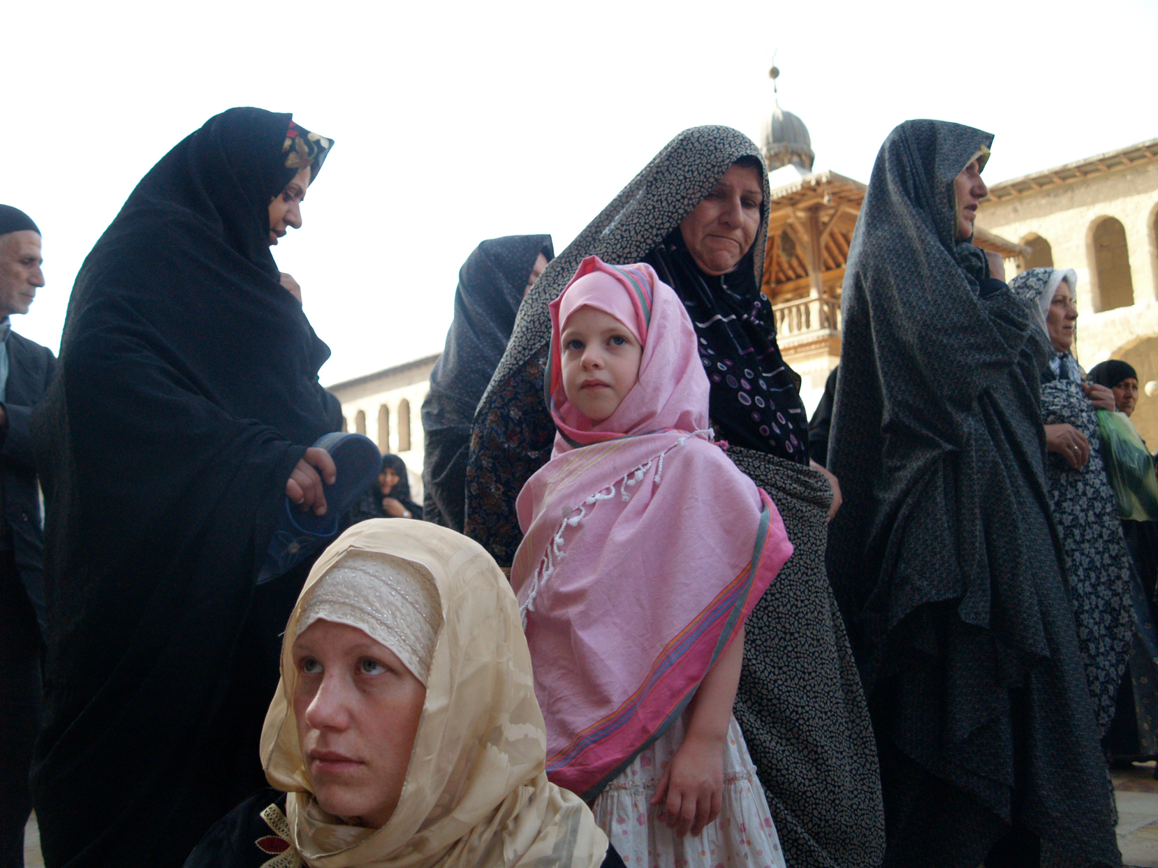 lizvlx & Billie-Ada from during a performance in 2008 at the Umayyad Mosque in Damascus, Syria